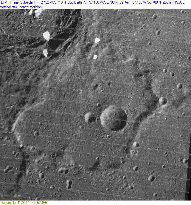 Lunar Orbiter IV-176H. High resolution scan from USGS Lunar Orbiter Digitization Project remapped to north-up aerial view by LTVT